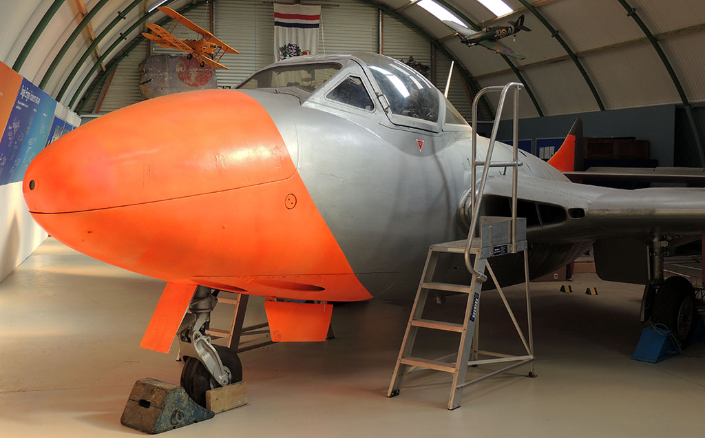 Royal Navy Fleet Air Arm de Havilland Vampire T22 (XA 109) at Montrose Air Station Heritage Centre, Scotland